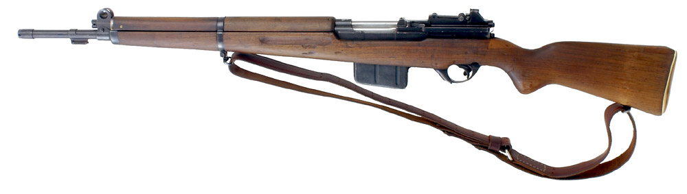 FN49 rifle in 8mm Mauser chambering. (Photo by Oleg Volk)